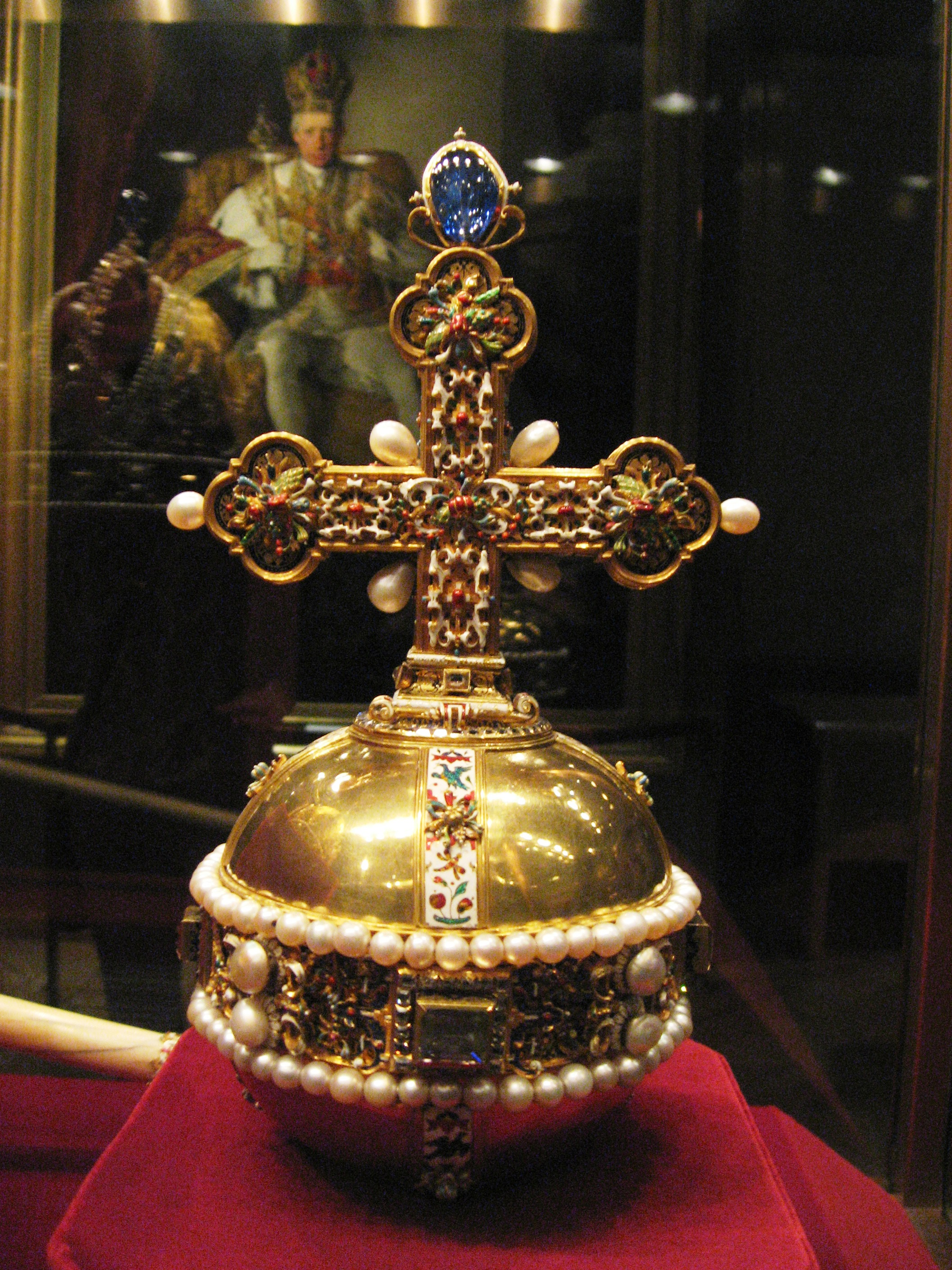 rear-view of the Imperial Orb Andreas Osenbruck Prague Between 1612 and 1615 Gold, partially enamelled, diamonds, rubies, one sapphire, pearls H 26.9 cm SK Inv. No. XI a 3